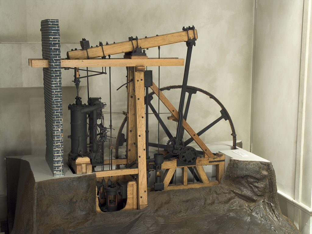 Model of Matthew Boulton & Jamse Watt's 1788 Lap Steam Engine. Commissioned for display in Birmingham Science Museum. Editing undertaken: Unsharp Mask